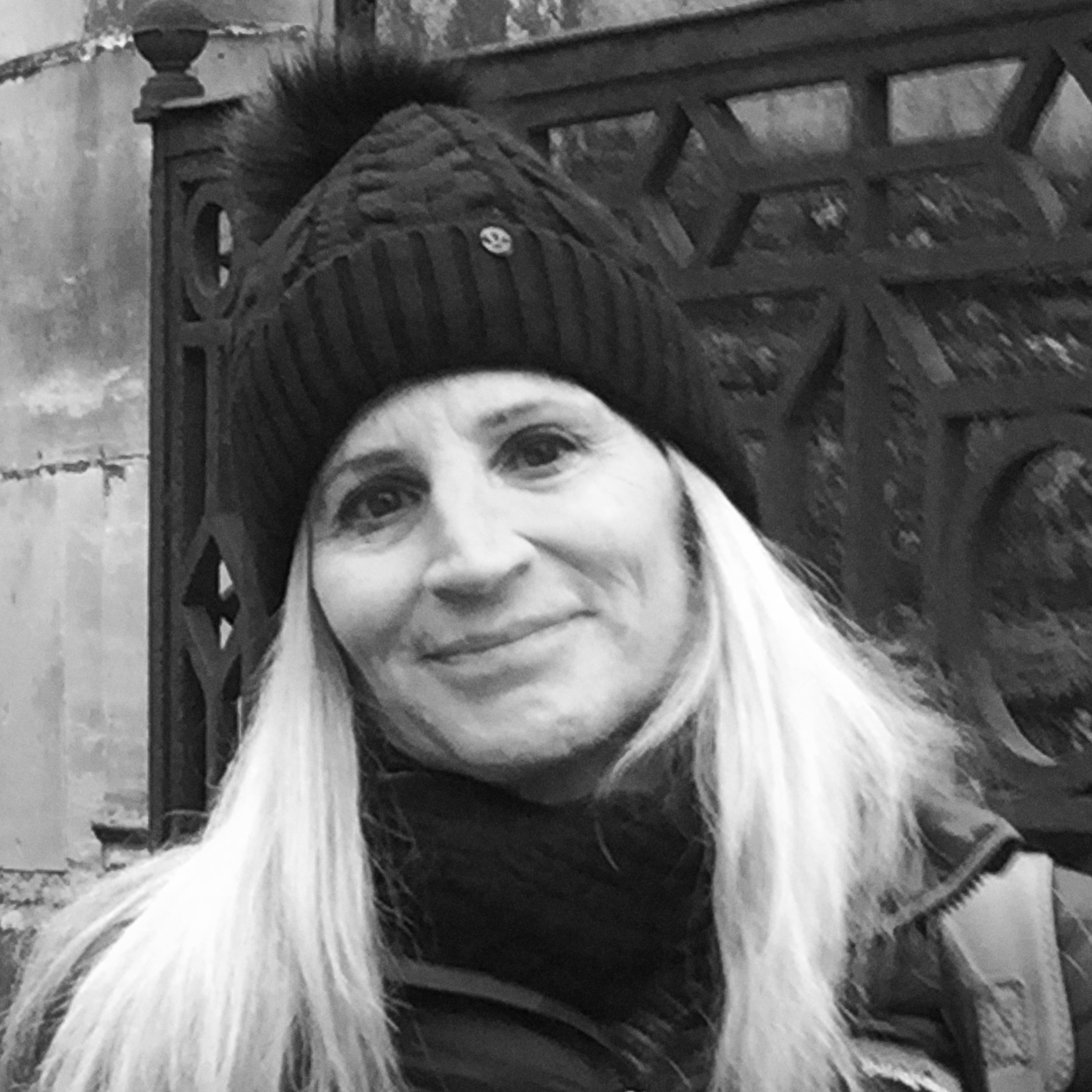 American author Leslie Schwartz, at Père Lachaise Cemetery in Paris, in front of Colette’s grave.